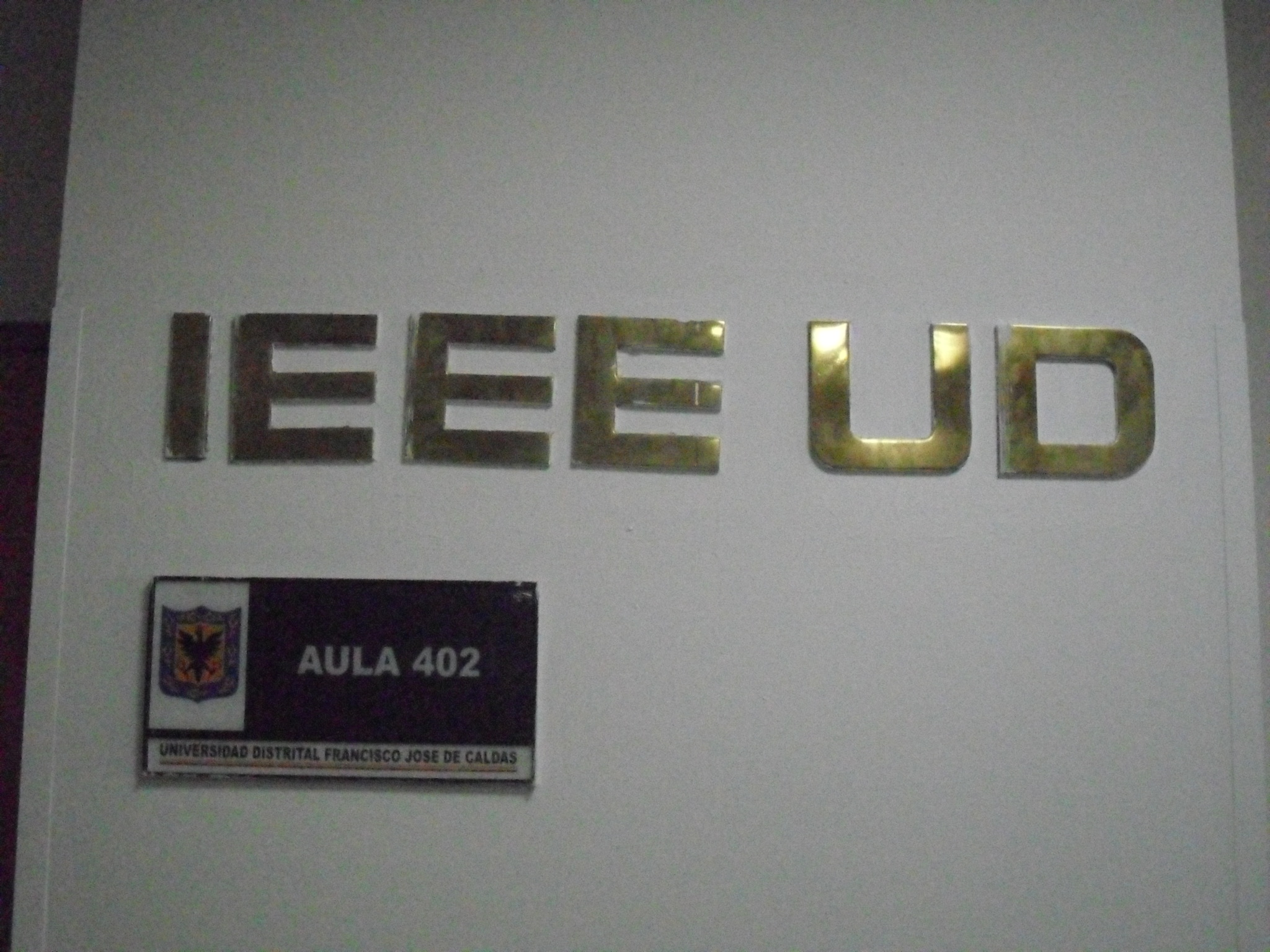 Picture of the place where an office of IEEE operates in the Universidad Distrital Francisco Jose De Caldas', in Bogota, Colombia.